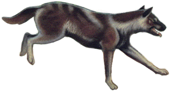 Mesocyon from Turtle Cove Member Mural from the Thomas Condon Paleontology Center, painted by Roger Witter